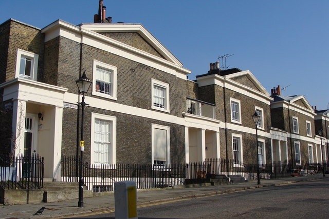 Houses of Lloyd Square A particularly fine row of distinctive Victorian houses.